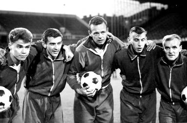 Roger Magnusson, Örjan Martinsson, Bengt Lindskog, Bosse Larsson and Lennart Skoglund